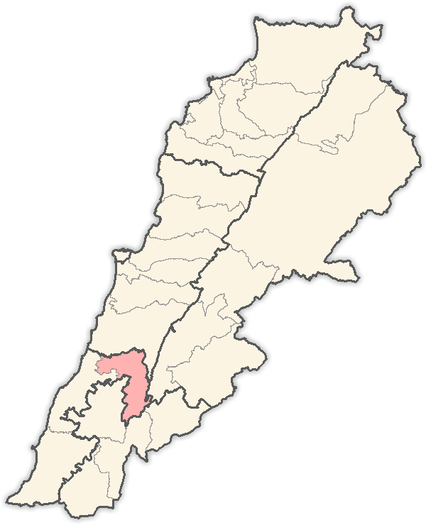 Map of districts in Lebanon, highlighting the Jezzine District